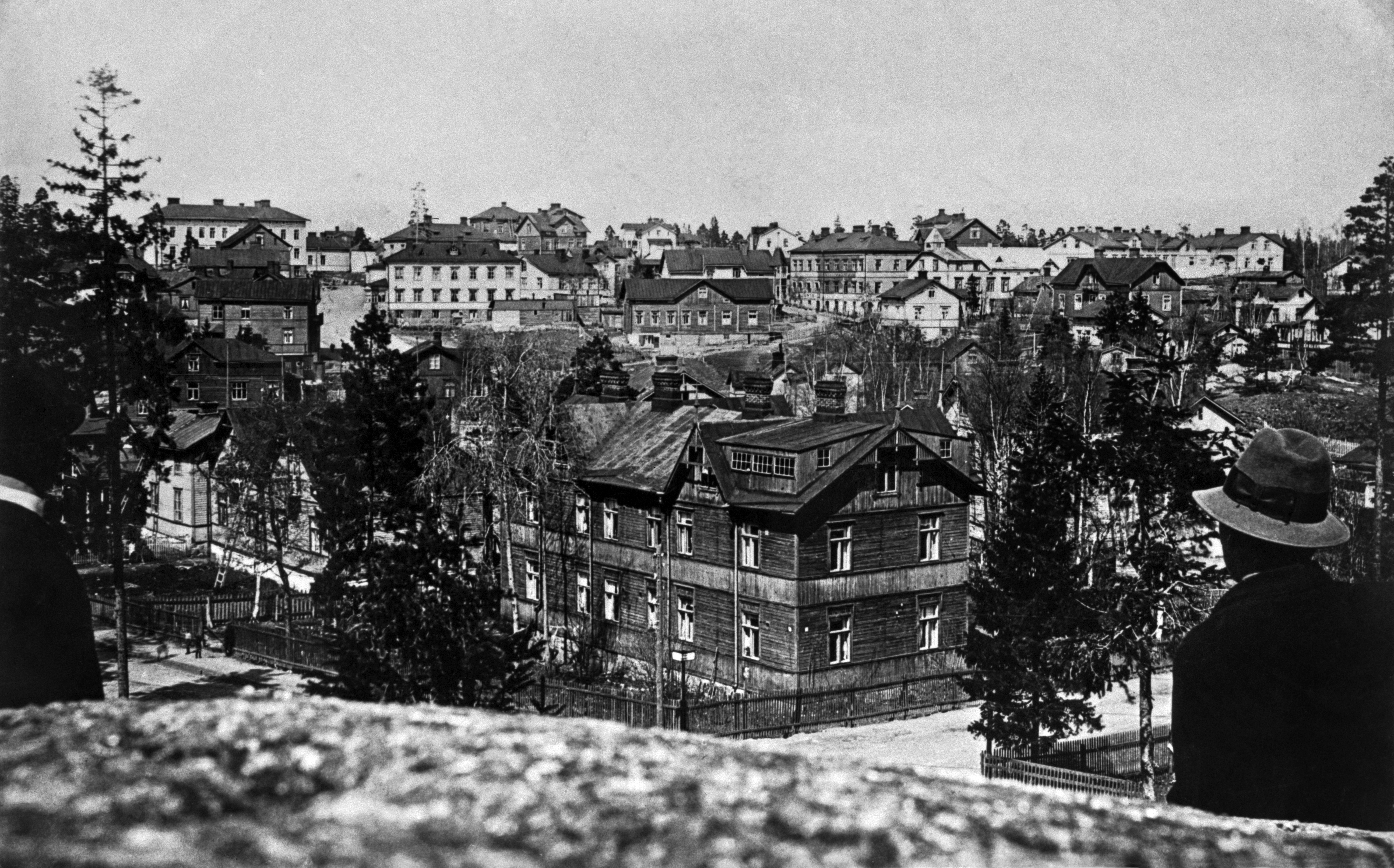 Original caption: View to the north, in the direction of today's Maistraatintori Square, in the 1910s. Maistraatinkatu 1.